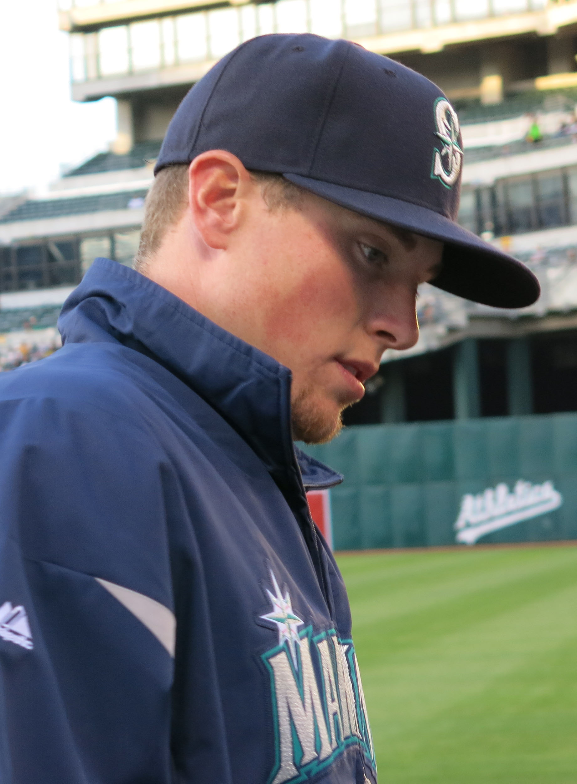 Seattle Mariners relief pitcher Carter Capps